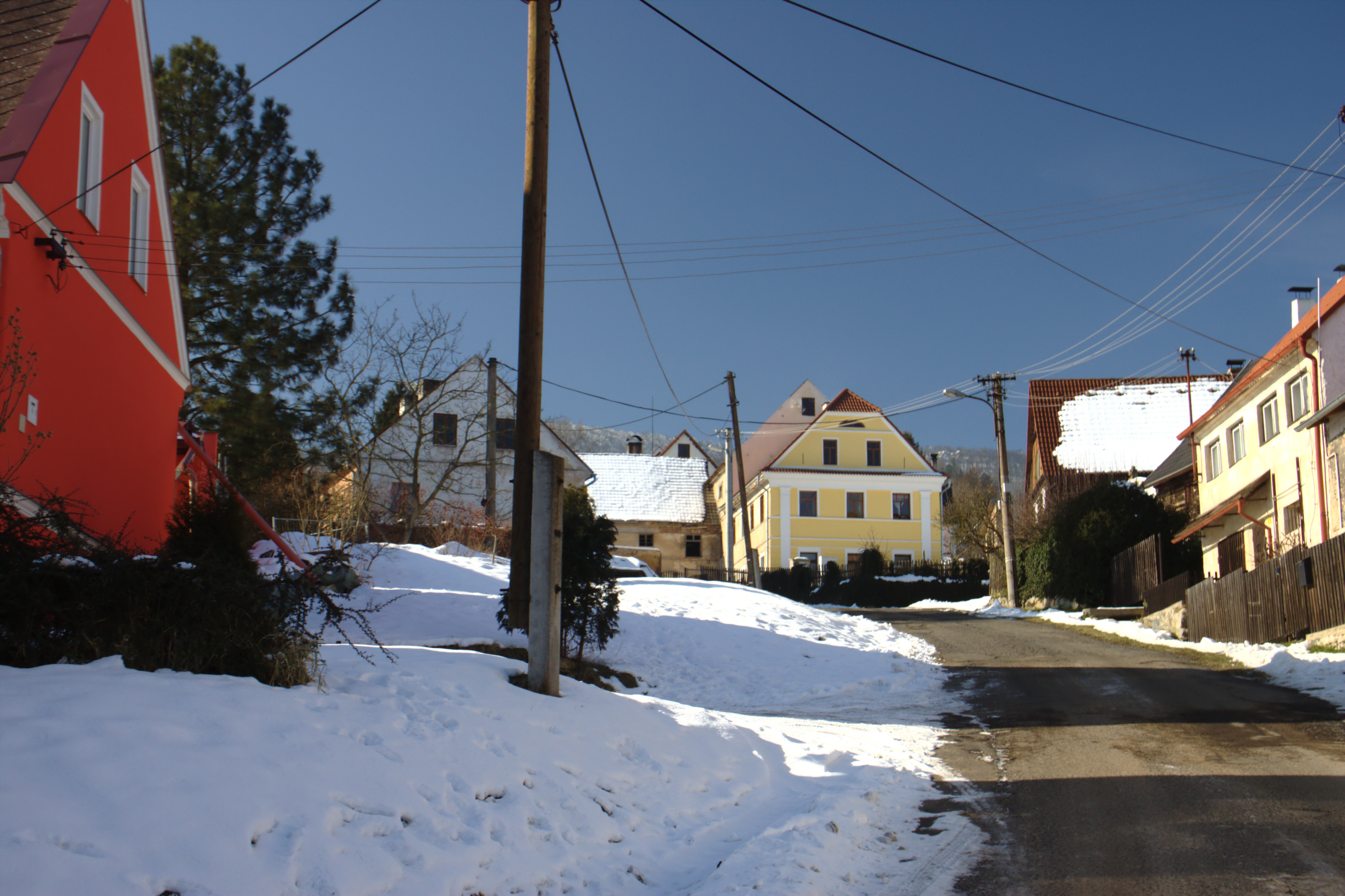 Various buildings in the village of Srdov in Litoměřice District, CZ